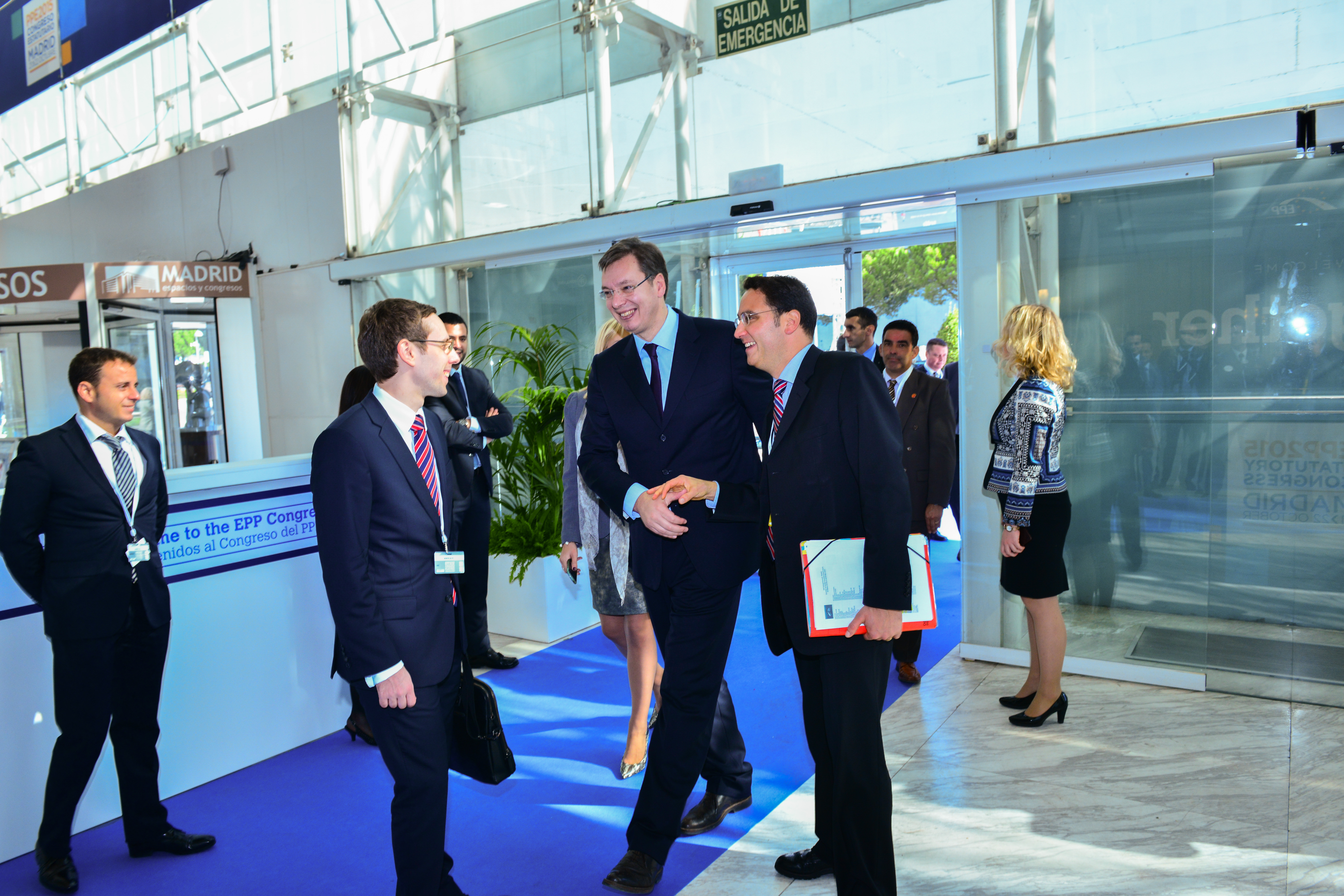 EPP Congress Madrid - 22 October